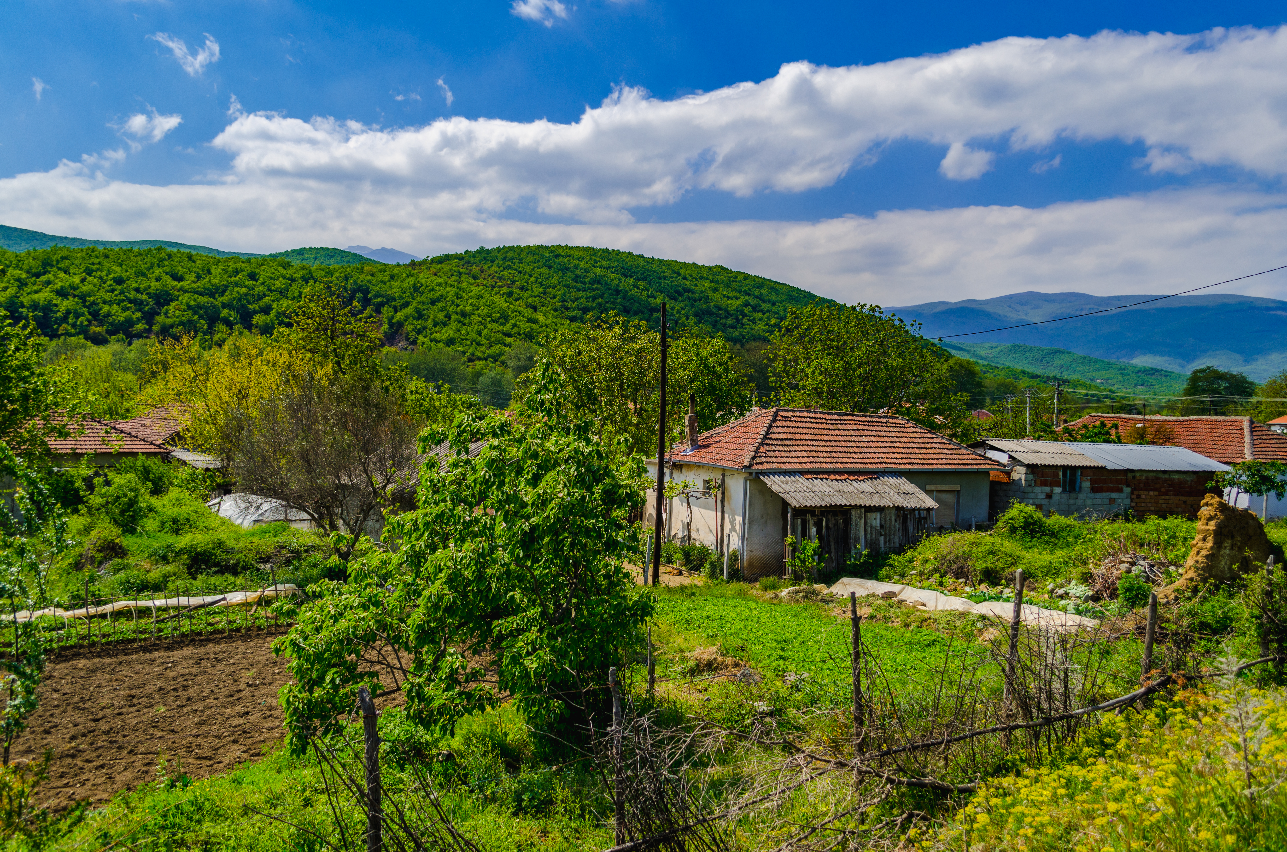 View of the village Kovanec